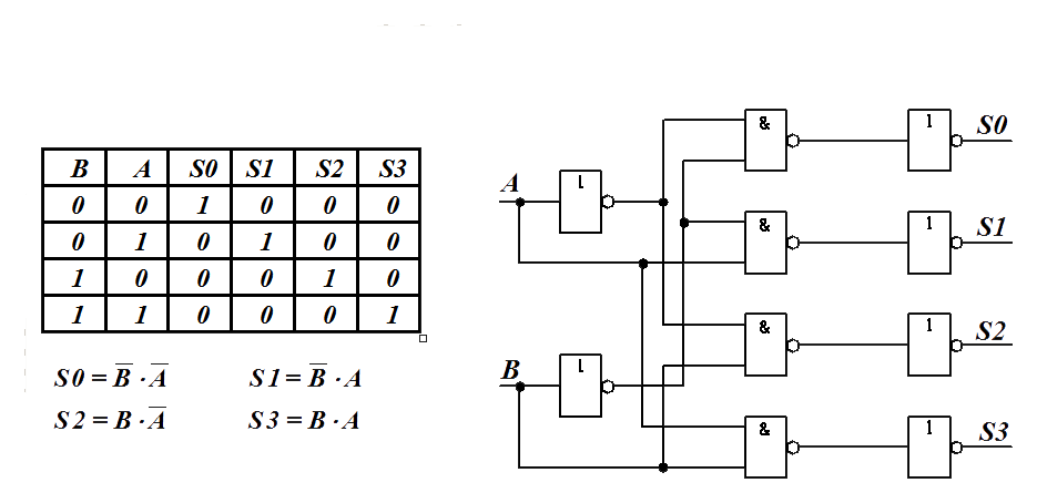 (demultiplexer)Dichotomous decoder with verity_table